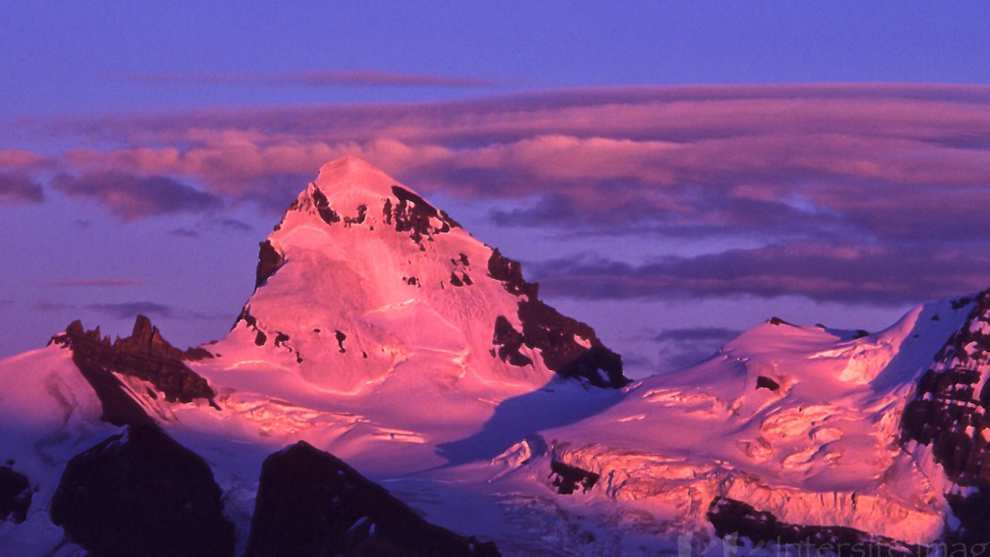 Alpenglow on Mt. Forbes in the W:Canadian Rockies.